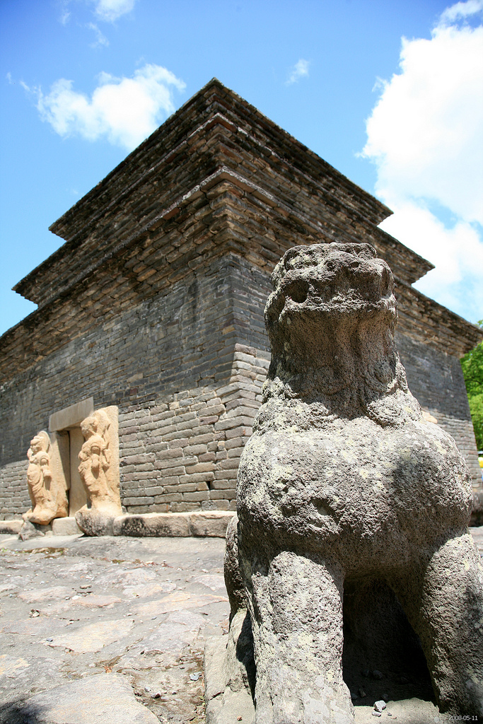 A view of Bunhwangsa, Gyeongju, North Gyeongsang province, South Korea